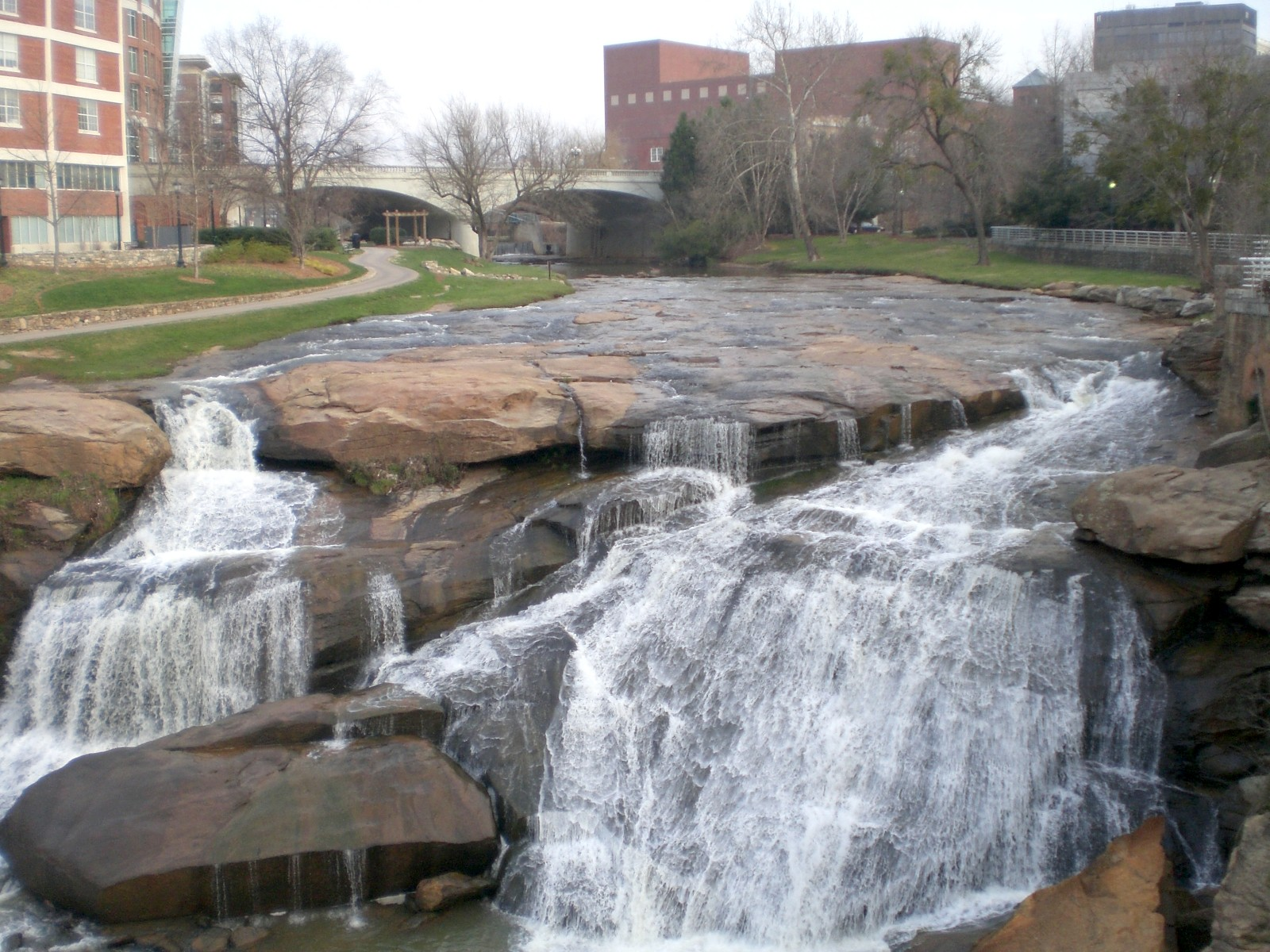 Waterfall in Falls Park on the Reedy, a park in downtown Greenville, South Carolina, United States.